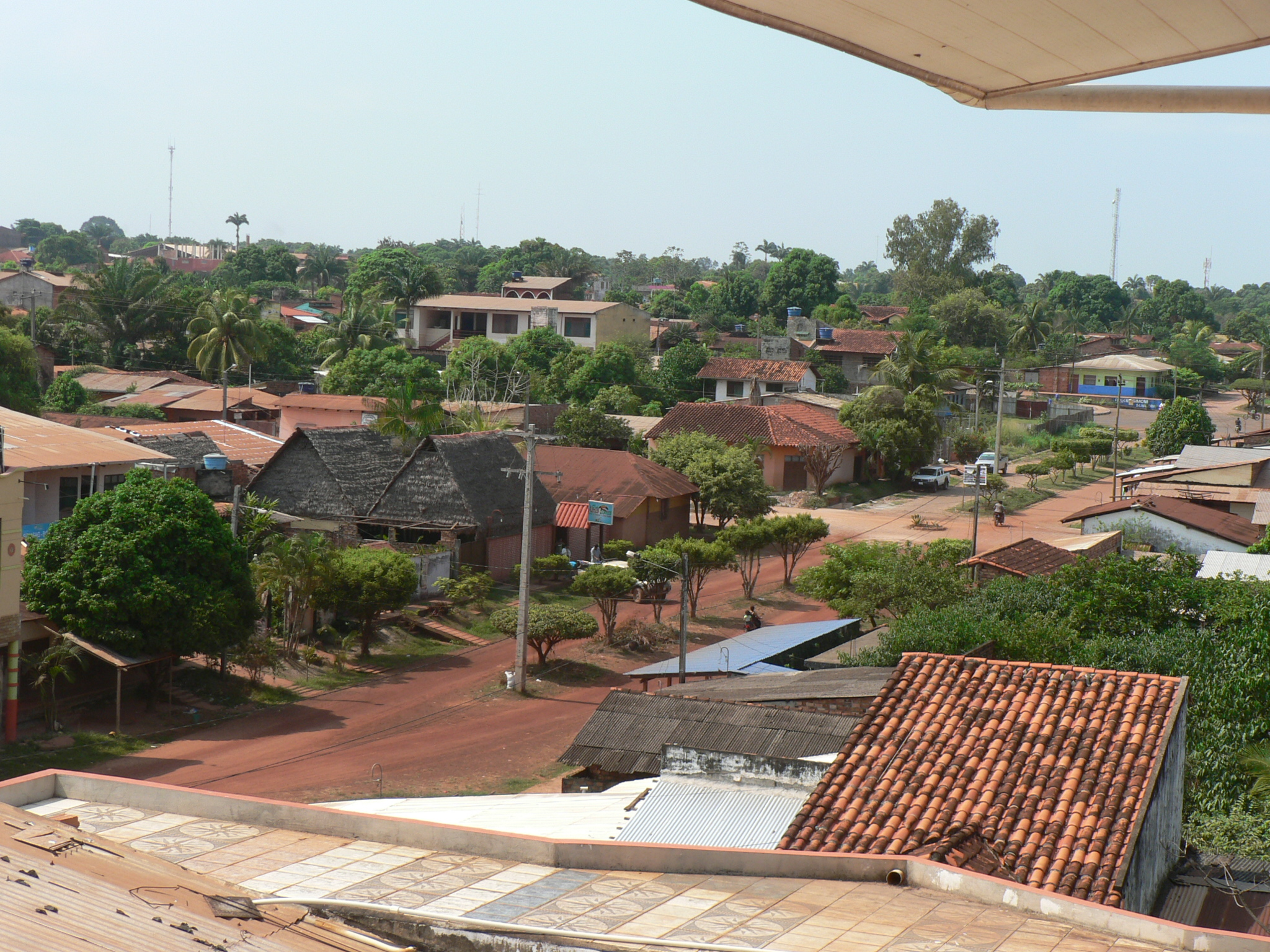 Street in Riberalta, Beni, Bolivia.